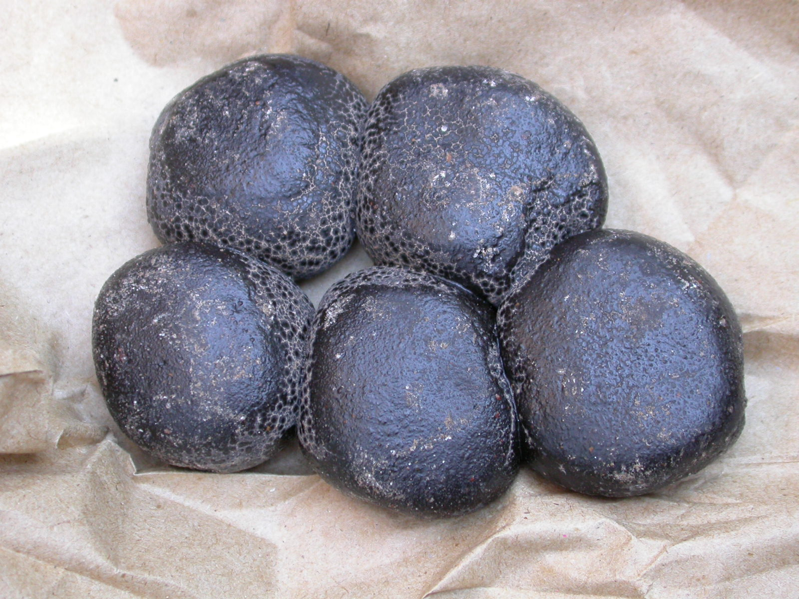 Pressed chocolate (with sugar and cinnamon) from Mexico (Chiapas)